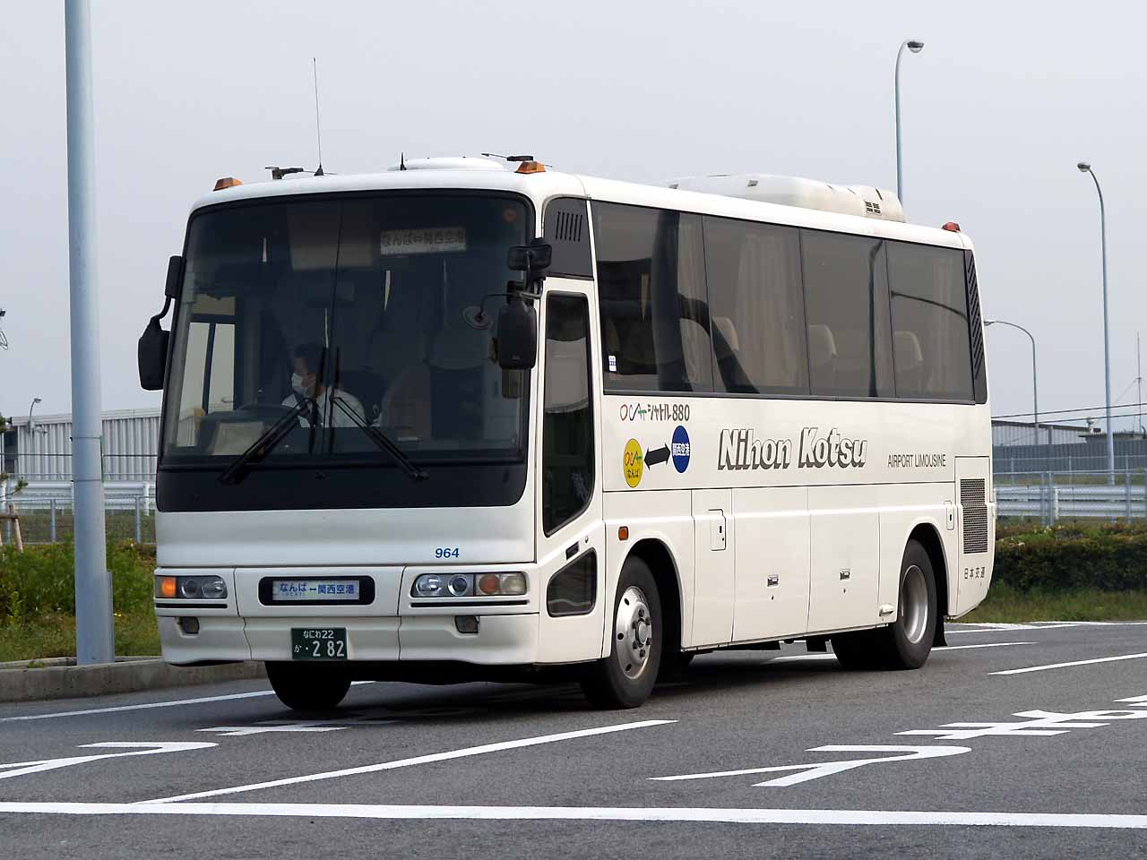 Nihon Kotsu (Osaka) OCAT Shuttle 880, operated in between Osaka City Air Terminal(OCAT) and Kansai International Airport. Model: Mitsubishi Fuso Aero Midi MJ (detail was unknown) License plate: OSN22KA-282 Place: Kansai International Airport Ferry terminal, Osaka Japan